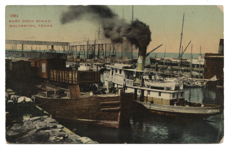 Title: Busy Dock Scene, Galveston, Texas. Date: ca. 1912 Part Of: Eric Steinfeldt collection of maritime views Place: Galveston, Galveston County, Texas Physical Description: 1 photomechanical print (postcard) File: ag2009_0005_01_01_168_r_busydock_sm_opt.jpg Rights: Please cite Southern Methodist University, Central University Libraries, DeGolyer Library when using this image file. A high-quality version of this file may be obtained for a fee by contacting . For more information, see: View Texas: Photographs, Manuscripts, and Imprints